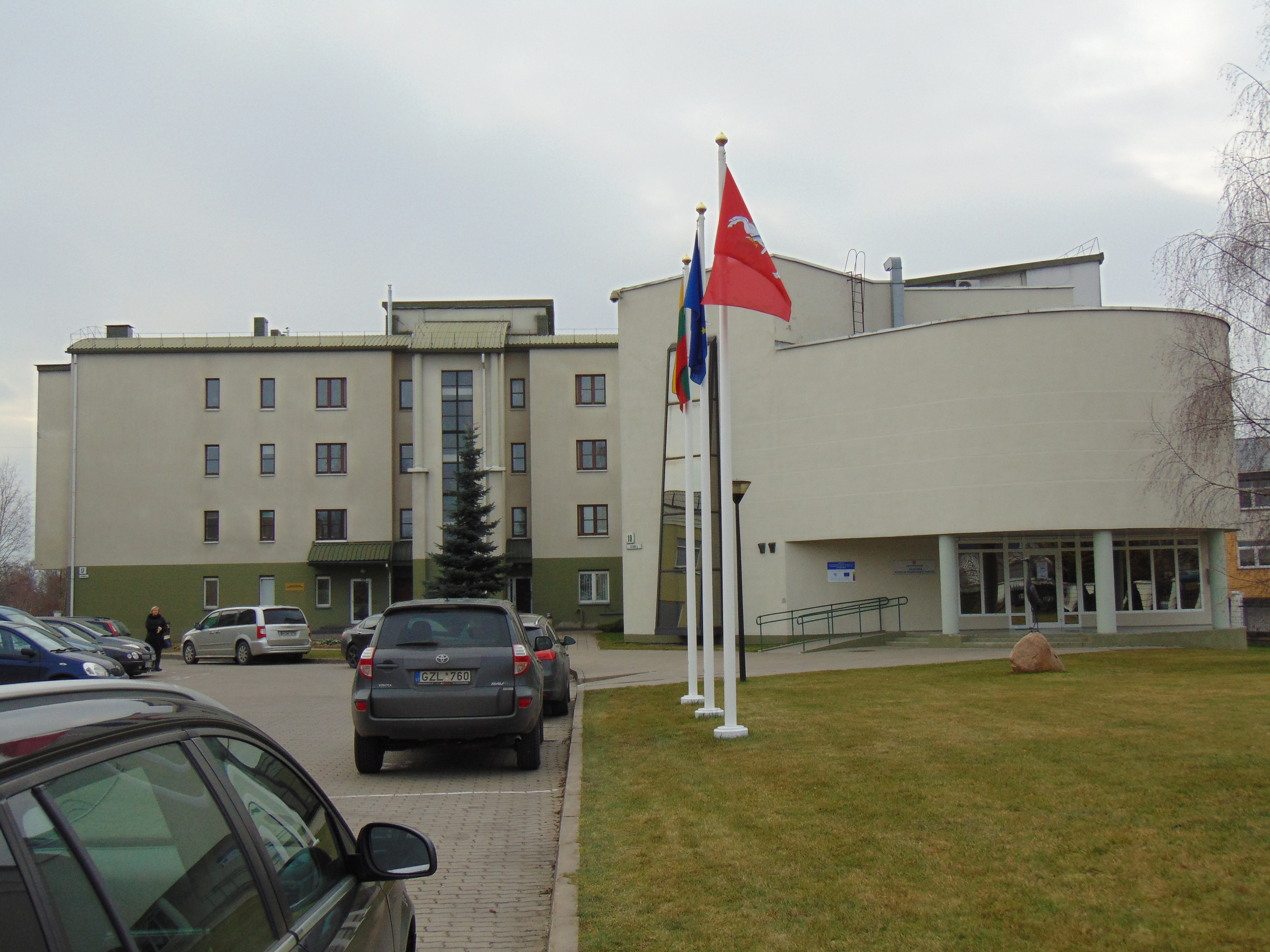 State Food and Veterinary Service